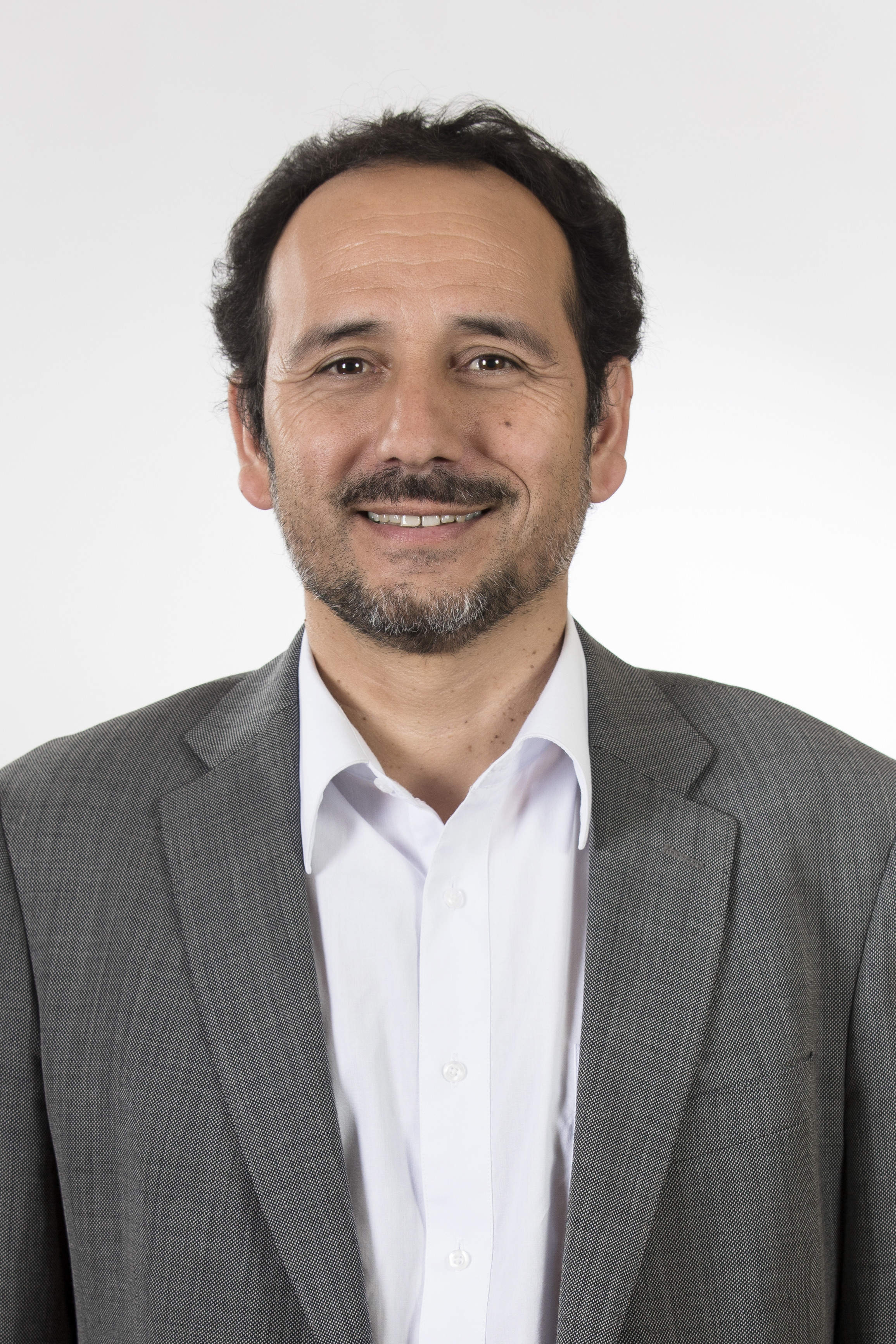 Fotografía oficial de diputado Daniel Ignacio Núñez Arancibia